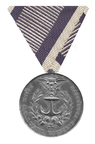 Medal to commemorate the voyage of Archduke Franz Ferdinand to the East in 1893